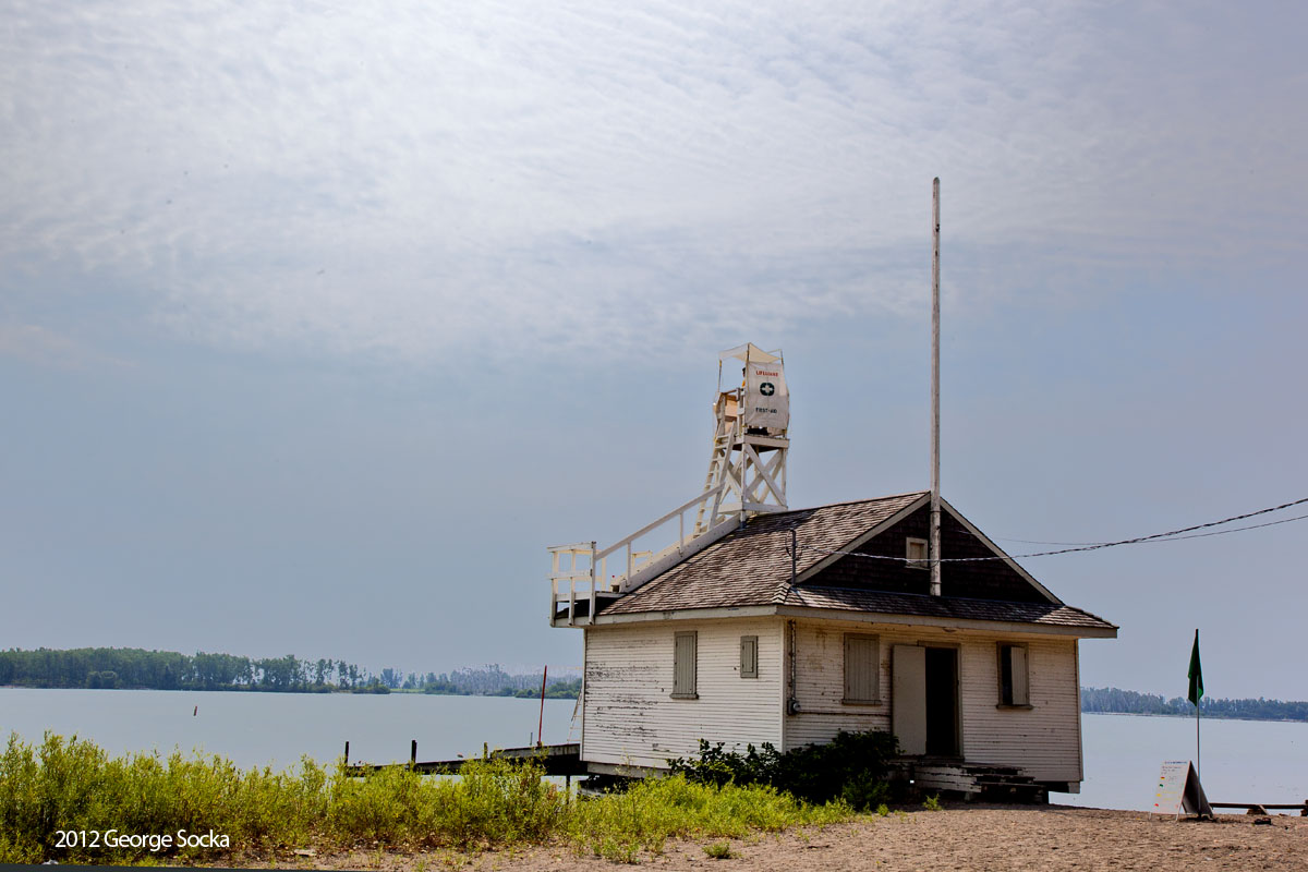 Toronto's natural beach protected by its lifeguard station on the Outer Harbour. Rocks and beach grass make it the complete opposite from the sandbox like experience of Sugar Beach. Cherry Beach provides a real escape to the country 5 minutes from downtown. Swimming definitely allowed. Even for dogs. Its hot dog truck, with dark gravy fries, provides a complete opposite gastronomic experience from the posh eatery in the Corus building at Sugar Beach..